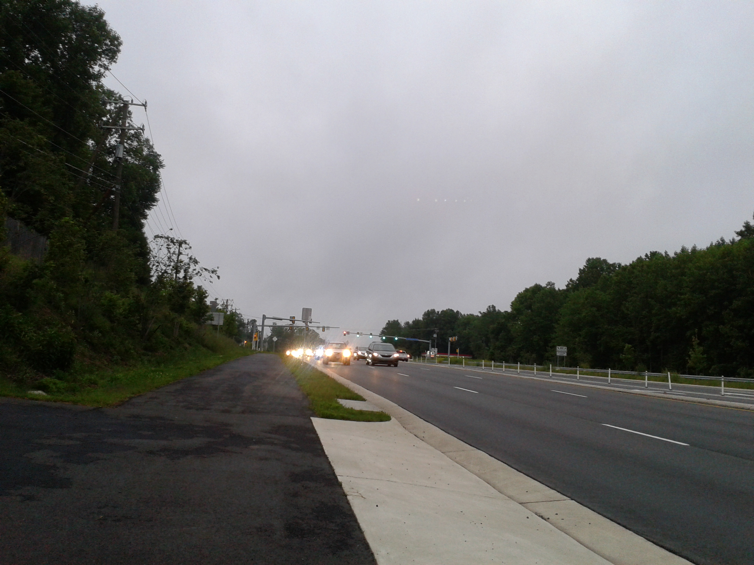 Approximate site of the Battle of Dranesville, at the intersection of Georgetown Pike and Leesburg Pike